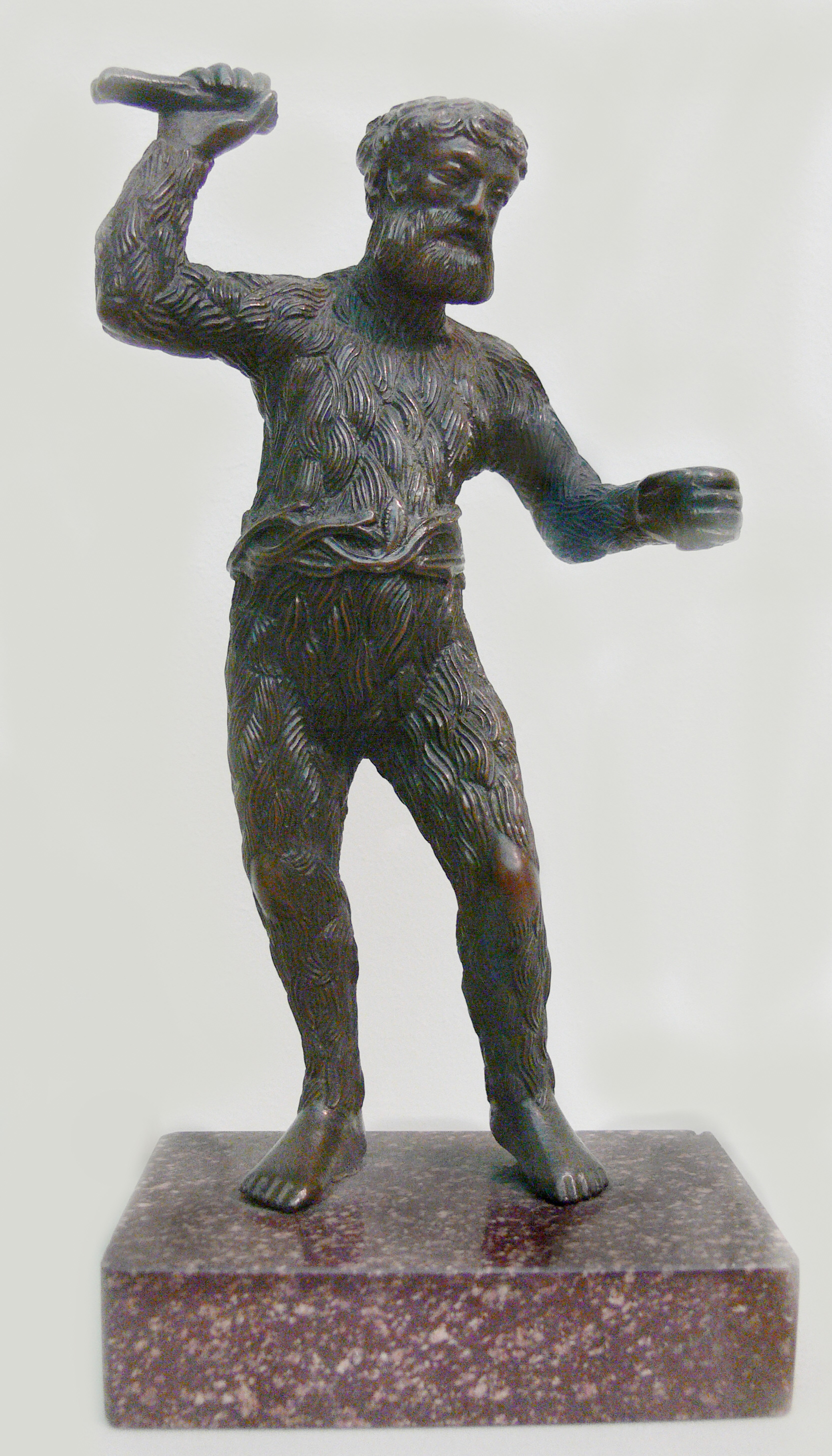 Paulus Vischer (c. 1498-1531): Wild Man, c. 1521/22, bronze. Skulpturensammlung (inv. no. 8403, acquired in 1929), Bode-Museum, Berlin.